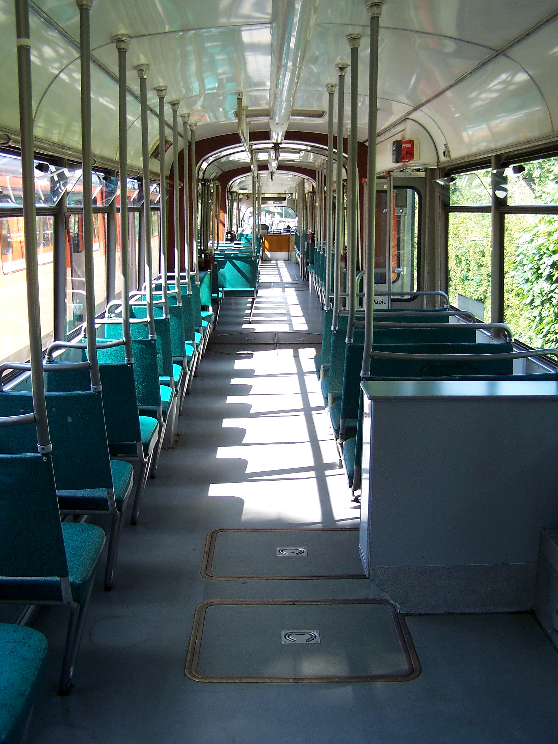 Tramway at Frankfurt am Main: Inside view of VGF type N railcar 112 (812) in Frankfurt-Sachsenhausen, August 1st, 2009